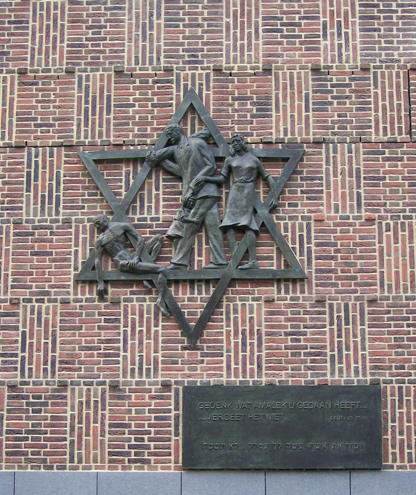 World War II memorial "Davidster" (Star of David) made by Dick Stins. Placed at the Marktstraat at the 12th of October 1967. The text at the side is in Dutch and Hebrew: Remember what Amalek has done to you...don't forget (DEUT : 25.17.19'). The Marktstraat used to be the place of the former Jewish neighbourhood and synagogue. After a renovation of the street it was restored in 2007.